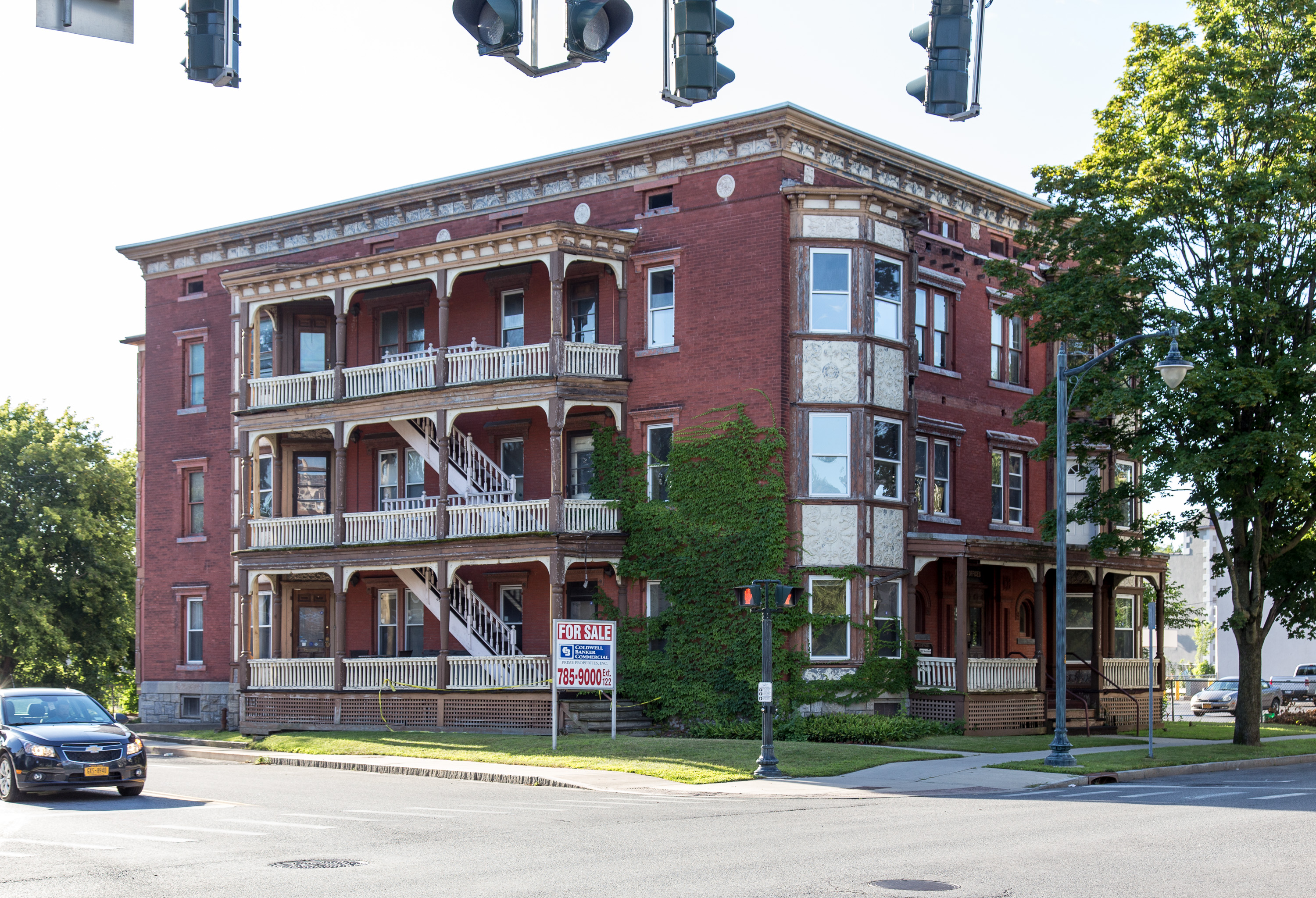 Smith Flats is a historic apartment house located at 55 Bay Street, Glens Falls, Warren County, New York. It was built about 1895. NRHP 84003404.